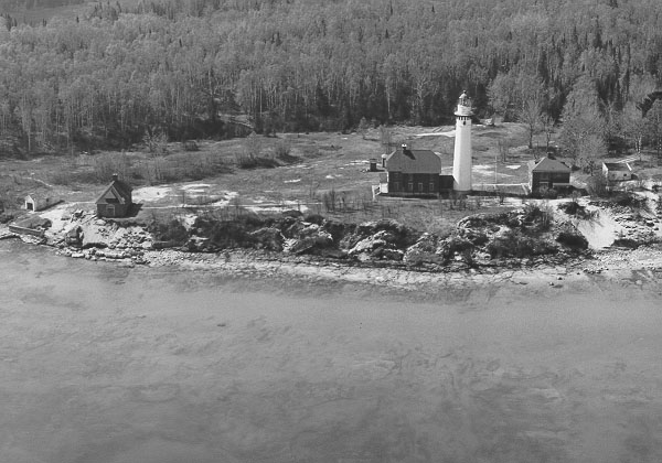 United States Coast Guard photo of Au Sable Lighthouse in Michigan.